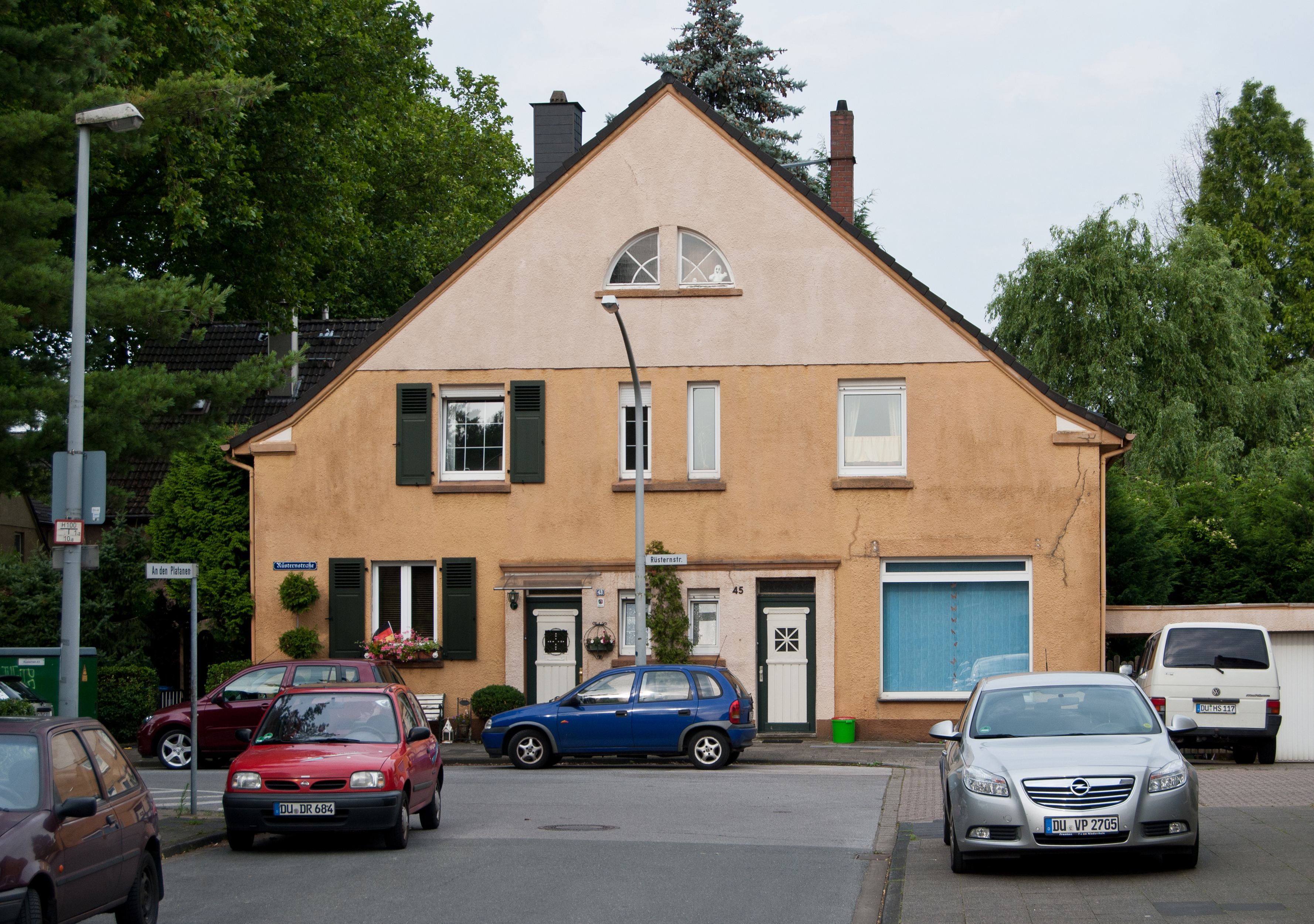 Duisburg (North Rhine-Westphalia, Germany) – borough Süd, district Wedau – characteristic house of the Wedau Railroader Colony This image shows a heritage building in Germany, located in the North Rhine-Westphalian city Duisburg (heritage area no. 3)). This photograph was taken with a Nikon D3000